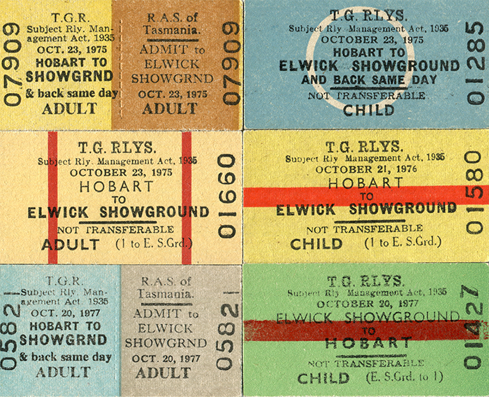 A scan of original, unused and now defunct Tasmanian Government Railways tickets, used on special trains to the Royal Hobart Show in the late 1970s. As there are no logos, and the design, issue and creation of these tickets have not been used or produced in over 30 years, I have scanned these under the pretences that they are fair use.